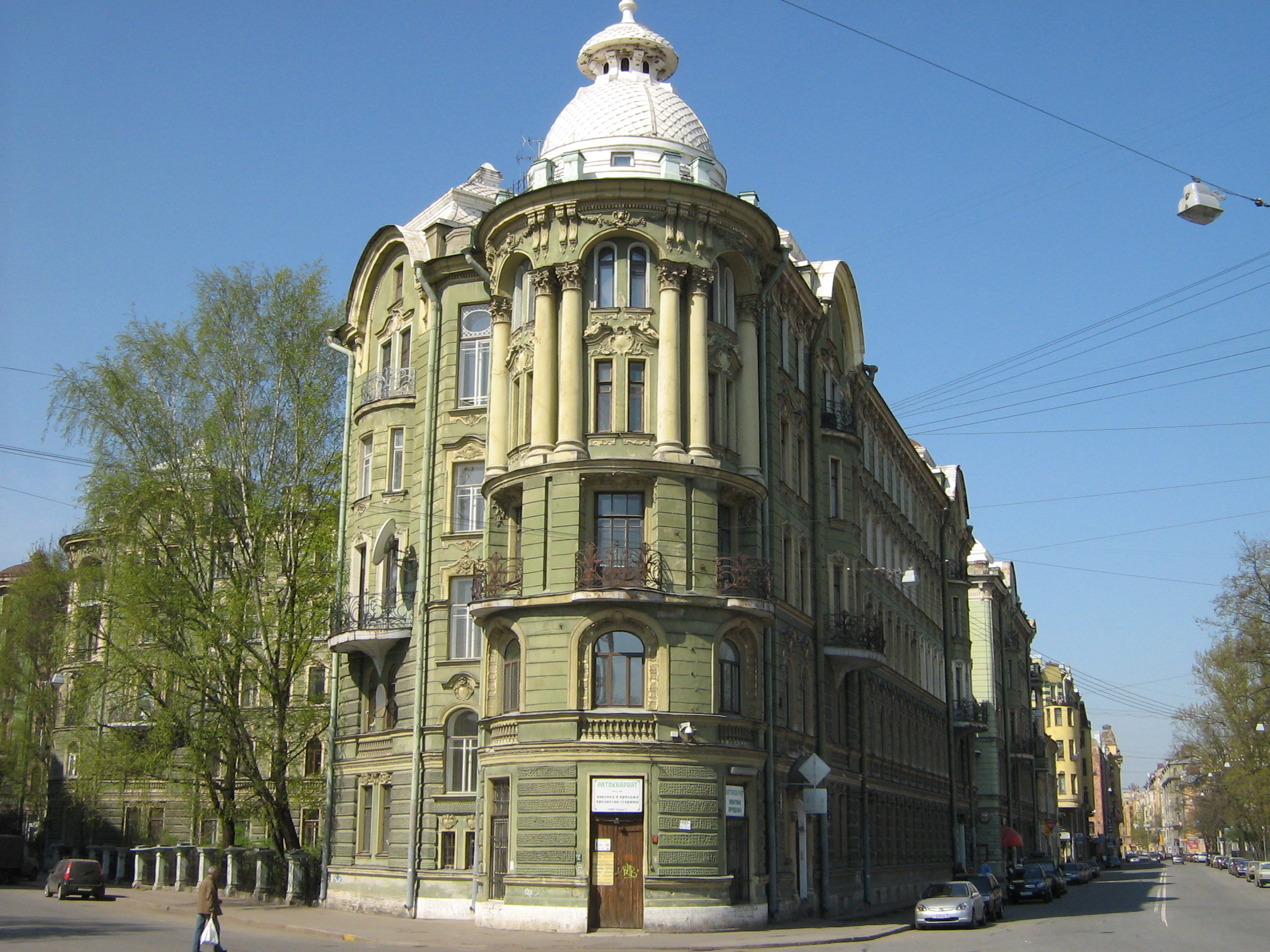 Kolobov House, - 8, Ulitsa Lenina (Lenin Street), Saint-Petersburg, Russia. Architects S. Ginger and M. von Wilken, 1910.